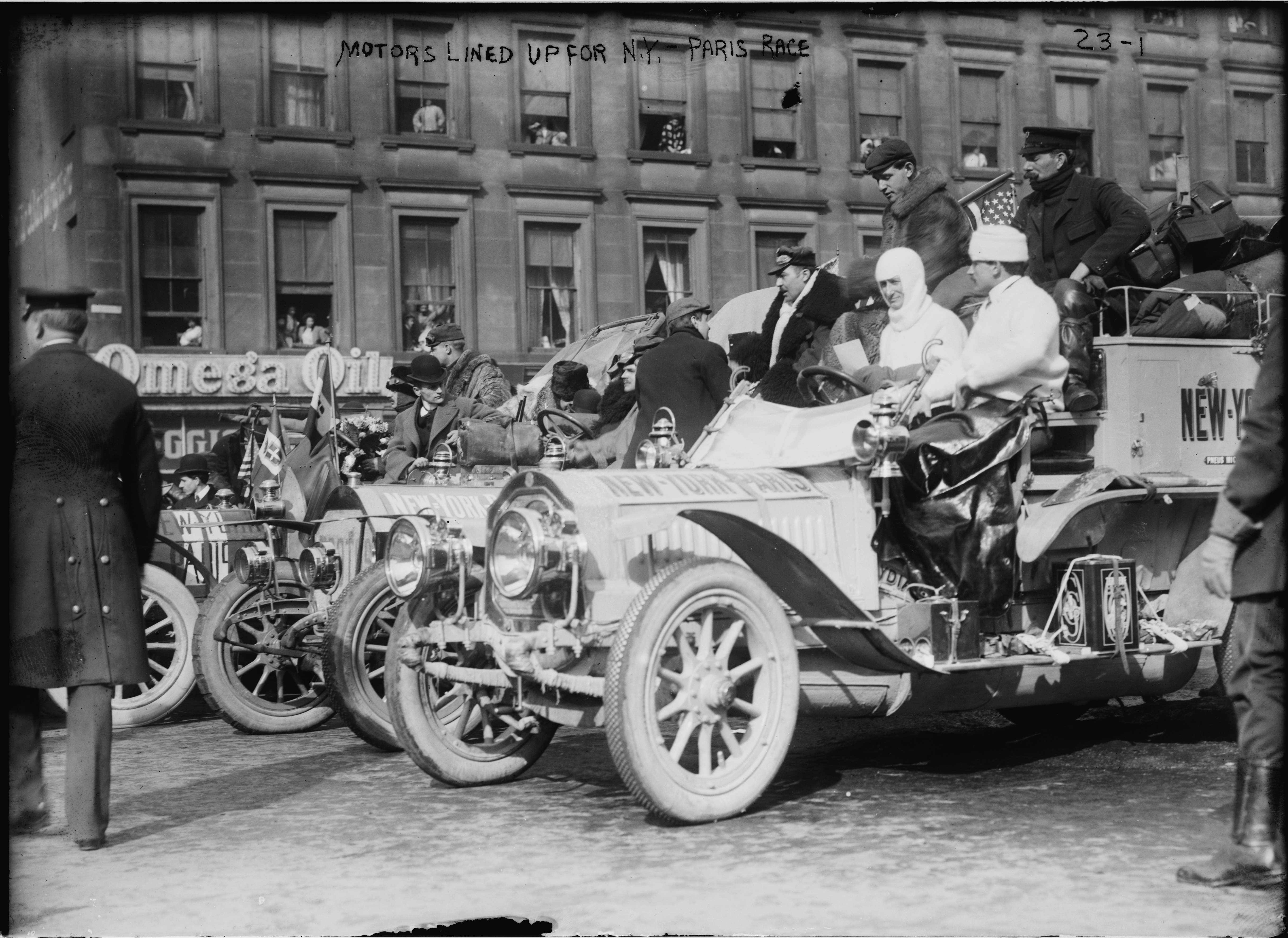 Grid before the 1908 New York to Paris Race. Shown in front is the De Dion-Bouton; next to it the German Protos.